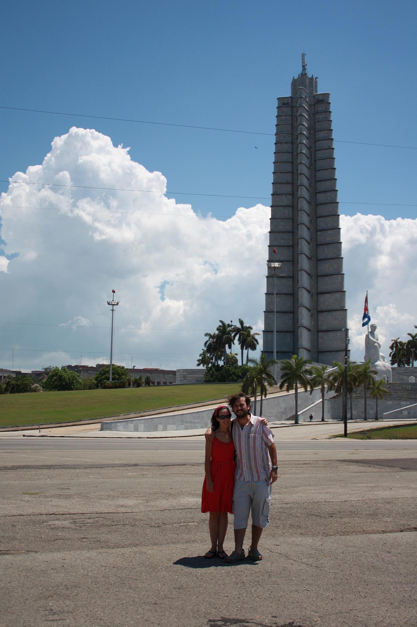 Honeymoon in Cuba